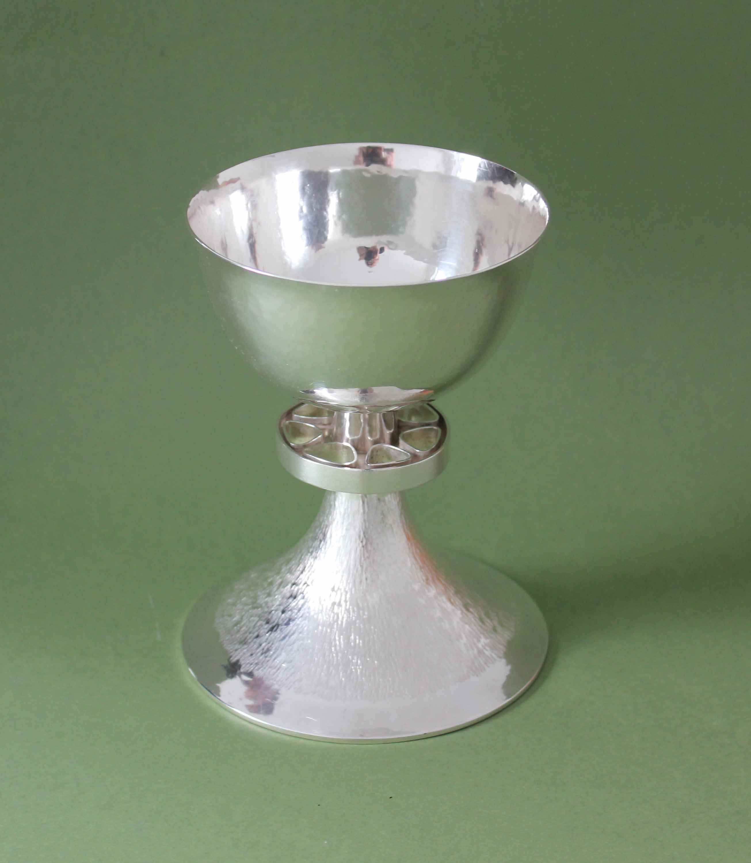 The Presidents’ Award dates from 1999 and is presented on behalf of the Presidents of the Ecclesiastical Architects and Surveyors Association and the National Churches Trust. The Chalice and Paten, originally commissioned by the Incorporated Church Building Society, were made after the 2nd World War to be loaned to a new or seriously war damaged church. It is lent to the winning parish to be held by them for the next year.The work of the Incorporated Church Building Society is now administered by the National Churches Trust.